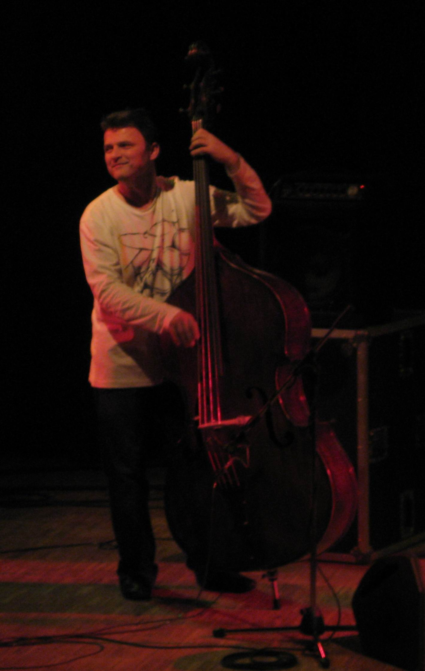 photo taken by myself in a concert of Robert Balzar Trio with John Abercrombie in České Budějovice 2009-03-18